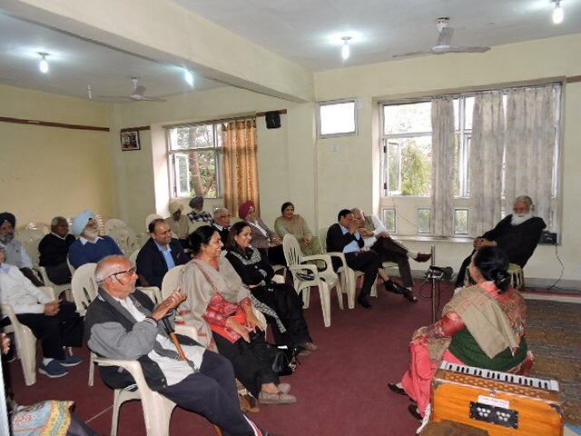 Harvinder Chandigarh giving presentation about Wikipedia to Punjabi writers on the event Moher Tongue Day Wiki Way at literary forum Saranglok, Mohali,Punjab.